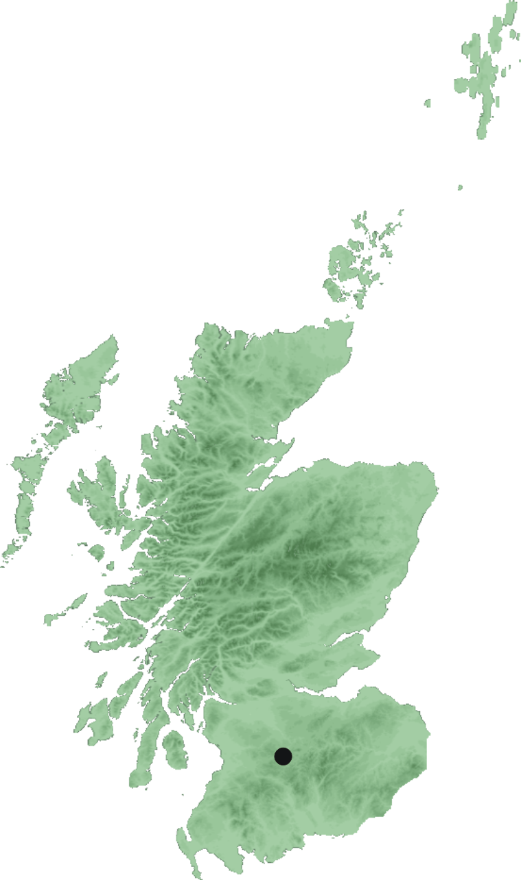 Location of Douglas Castle, Scotland.